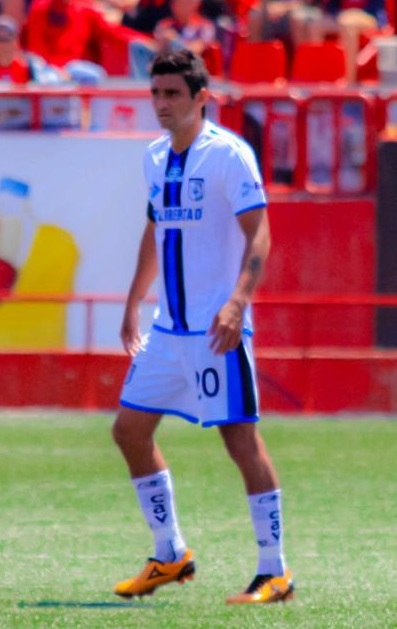 Uruguayan footballer Carlos Bueno